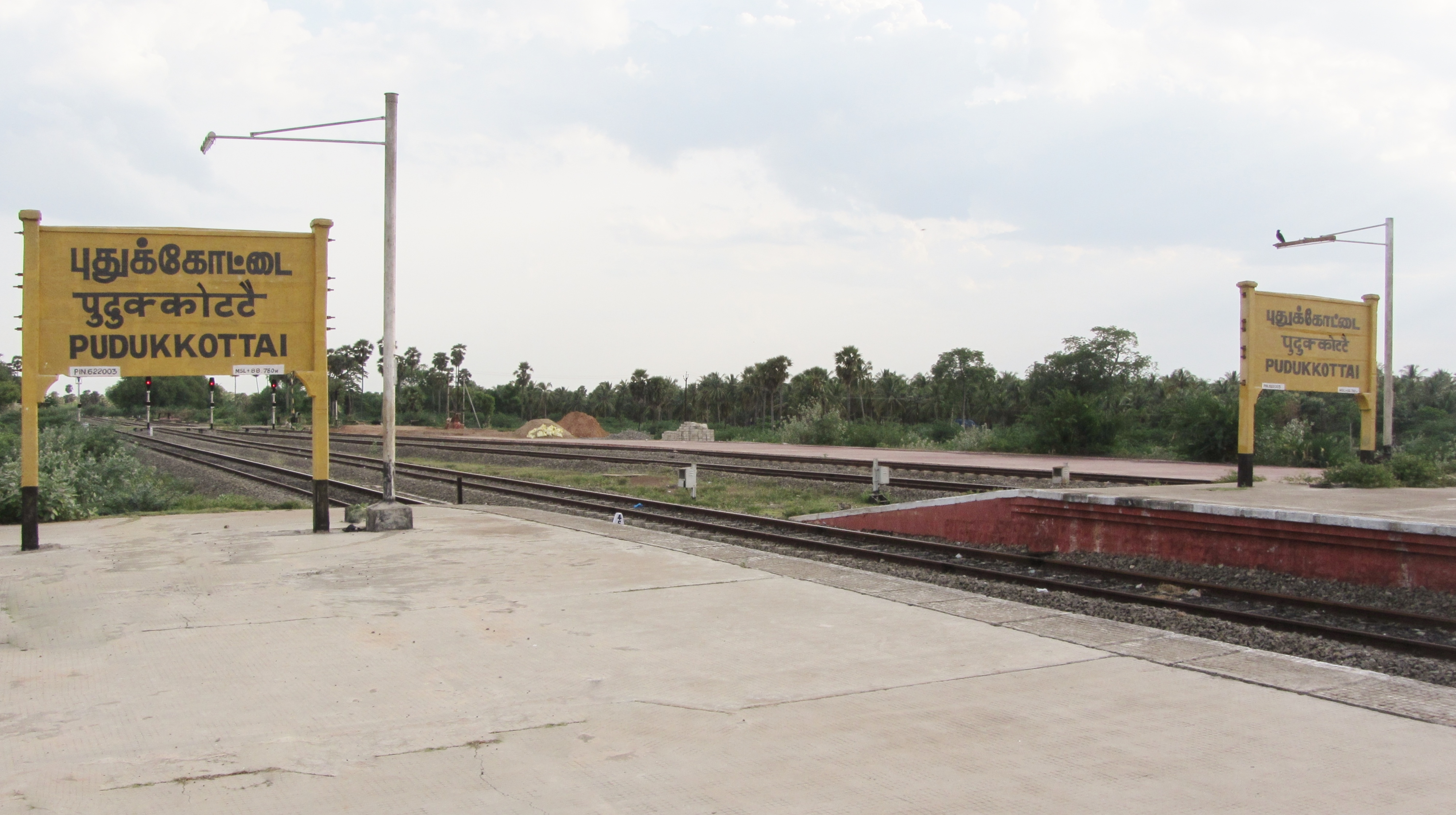 Pudukkottai railway station boards